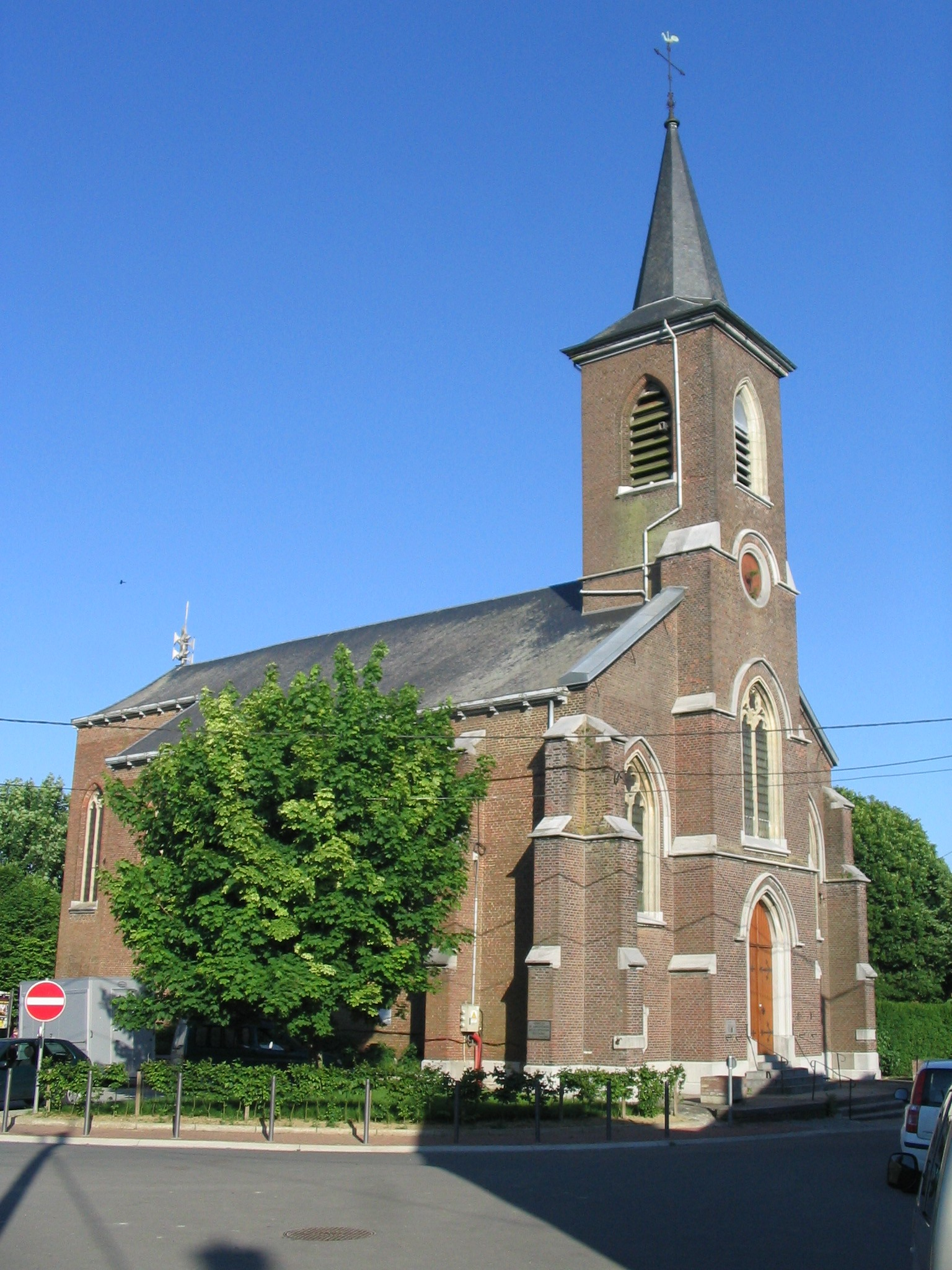 Saint Jean-Baptiste church at Chapon-Seraing in Belgium